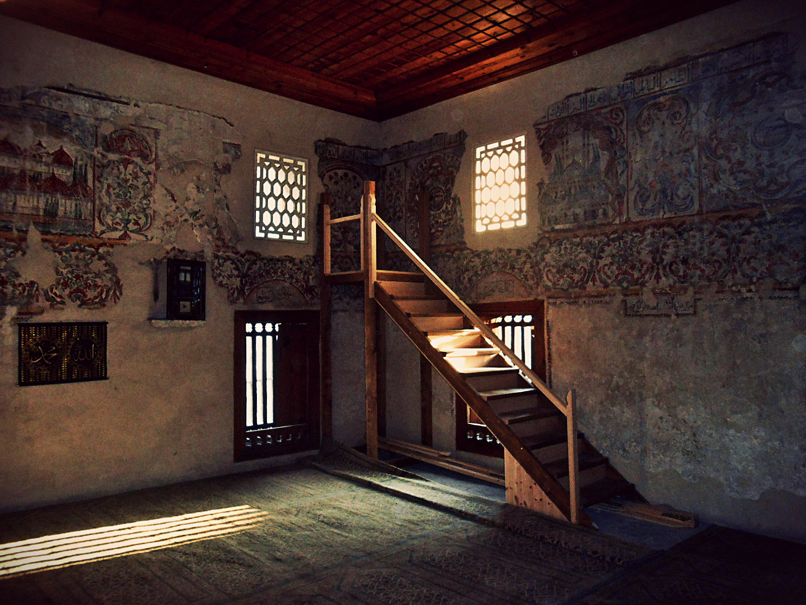 The mosque is located in the lower Mangalem neighborhood. It has two floors and arcades on three sides of it. The minaret of the mosque is low. The paintings inside the mosque date from the years 1927-1928.